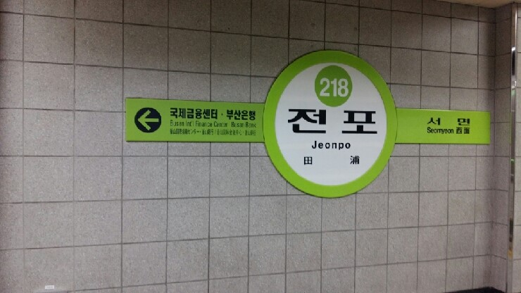 Jeonpo Station.